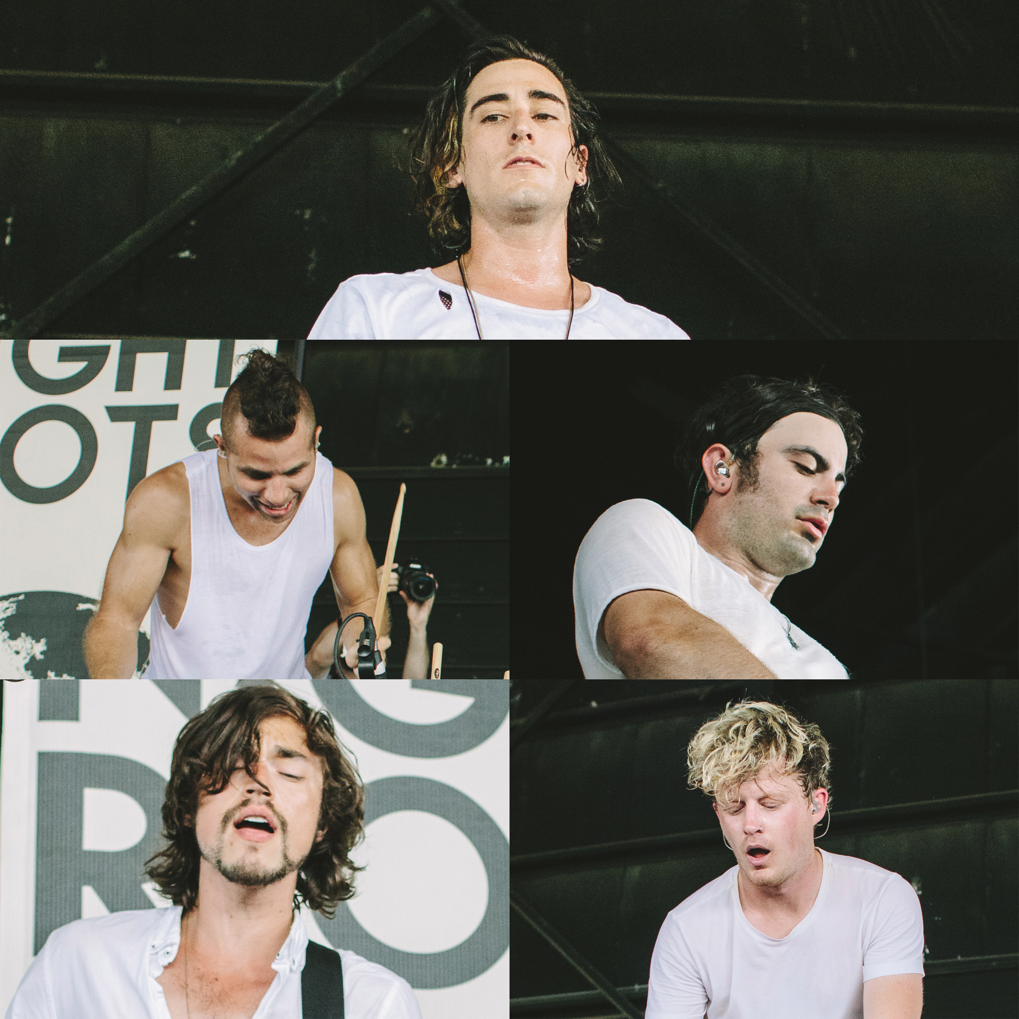 Night Riots performing at the 2014 Vans Warped Tour.